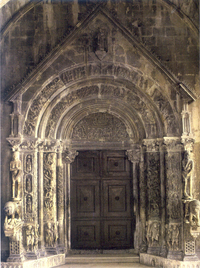 Portal of Trogir cathedral by sculptor Radovan, c. 1240, prior to restoration.